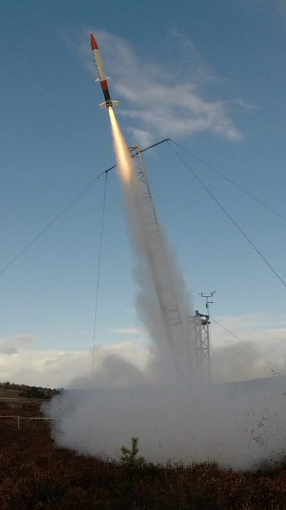 Launch of Students' Space Association's TuCAN rocket on October 29th, 2016 at Toruń artillery range